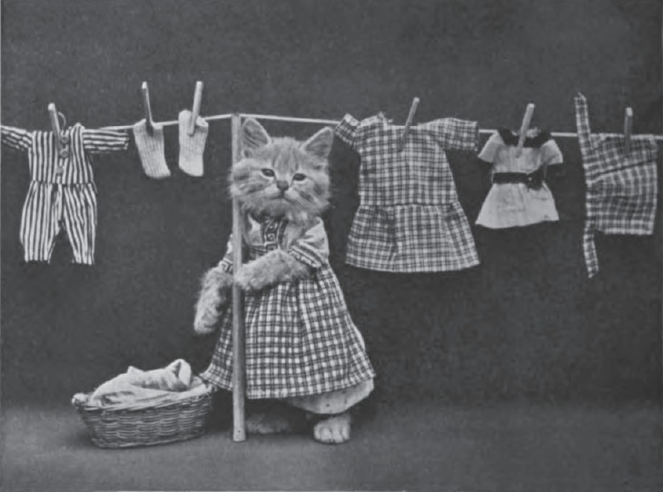 Illustration from "The little folks of animal land". Inscription below image: "Mrs. Bufkins had a Busy Day"